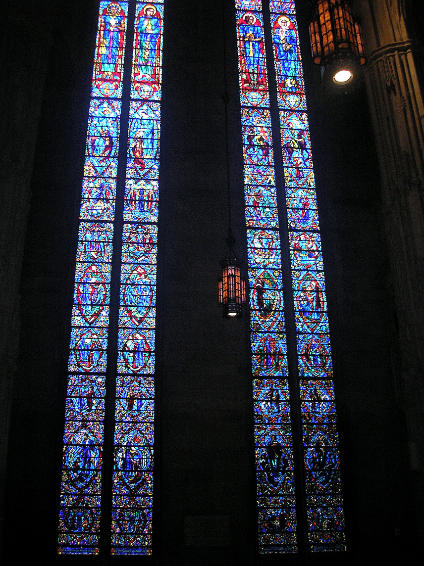 73-foot tall North Transept windows of Heinz Memorial Chapel on the campus of the University of Pittsburgh. photo by Laurie Stepanek/Mike White